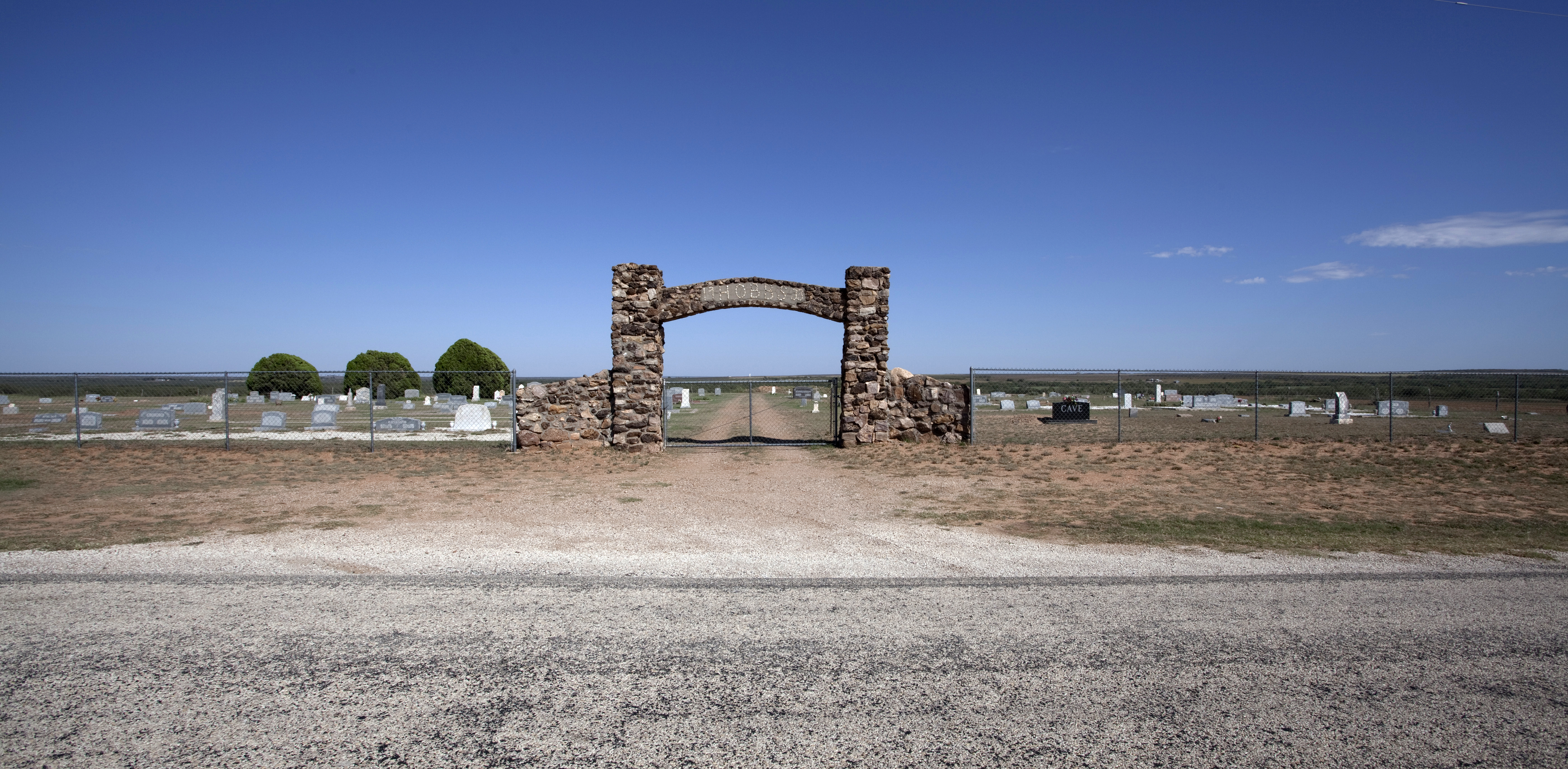 Cemetery to the south of Hobbs, Texas